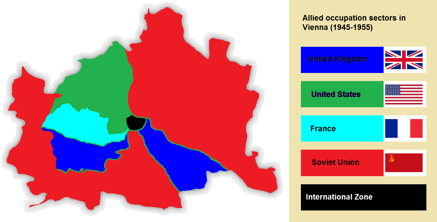 Allied Occupation sectors in Vienna (1945-1955).